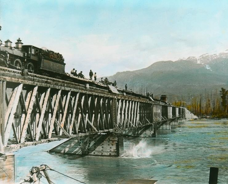 Photograph, glass lantern slide, Wooden bridge at Revelstoke, BC, about 1886, Anonymous, Silver salts and transparent ink on glass - Gelatin dry plate process - 8 x 8 cm